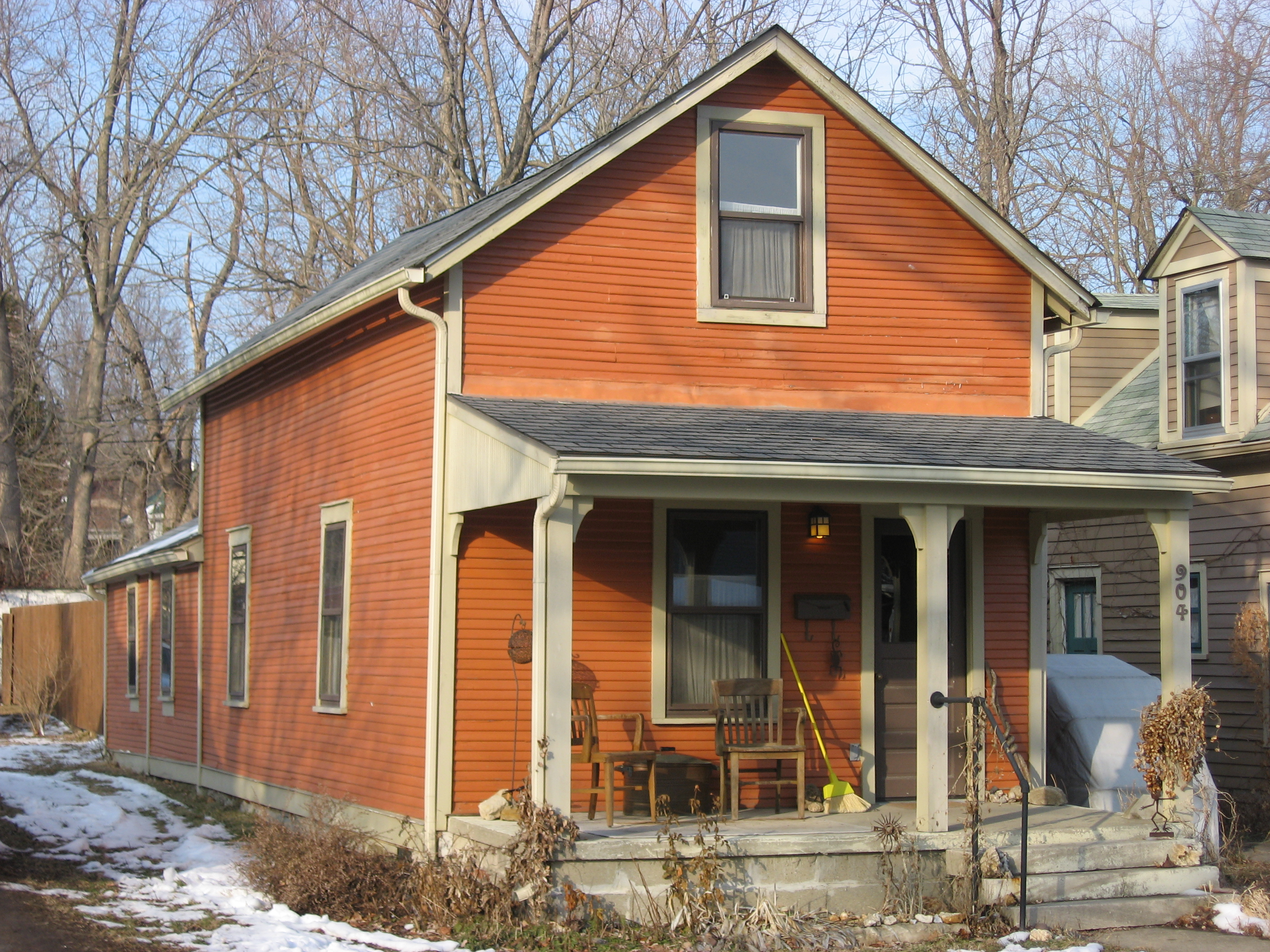 Front and western side of the house located at 904 W. Seventh Street in Bloomington, Indiana, United States. Built in 1920, it is a part of the Bloomington West Side Historic District, a historic district that is listed on the National Register of Historic Places.